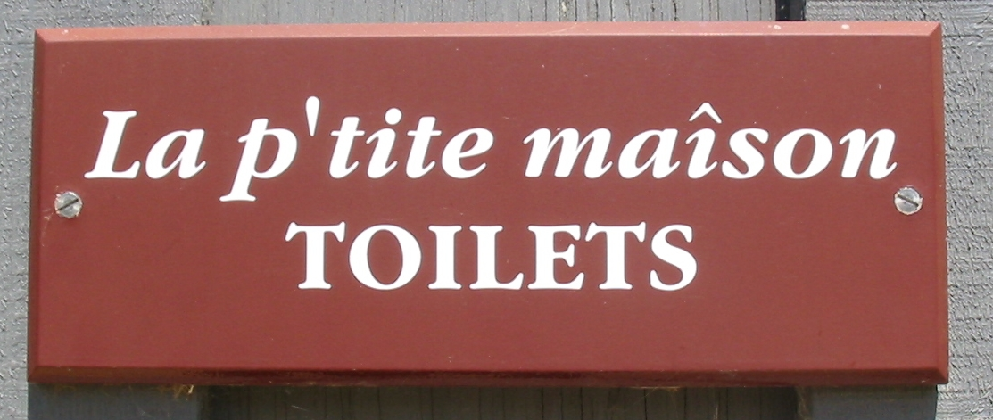 Sign at Hamptonne, Country Life Museum, Jersey